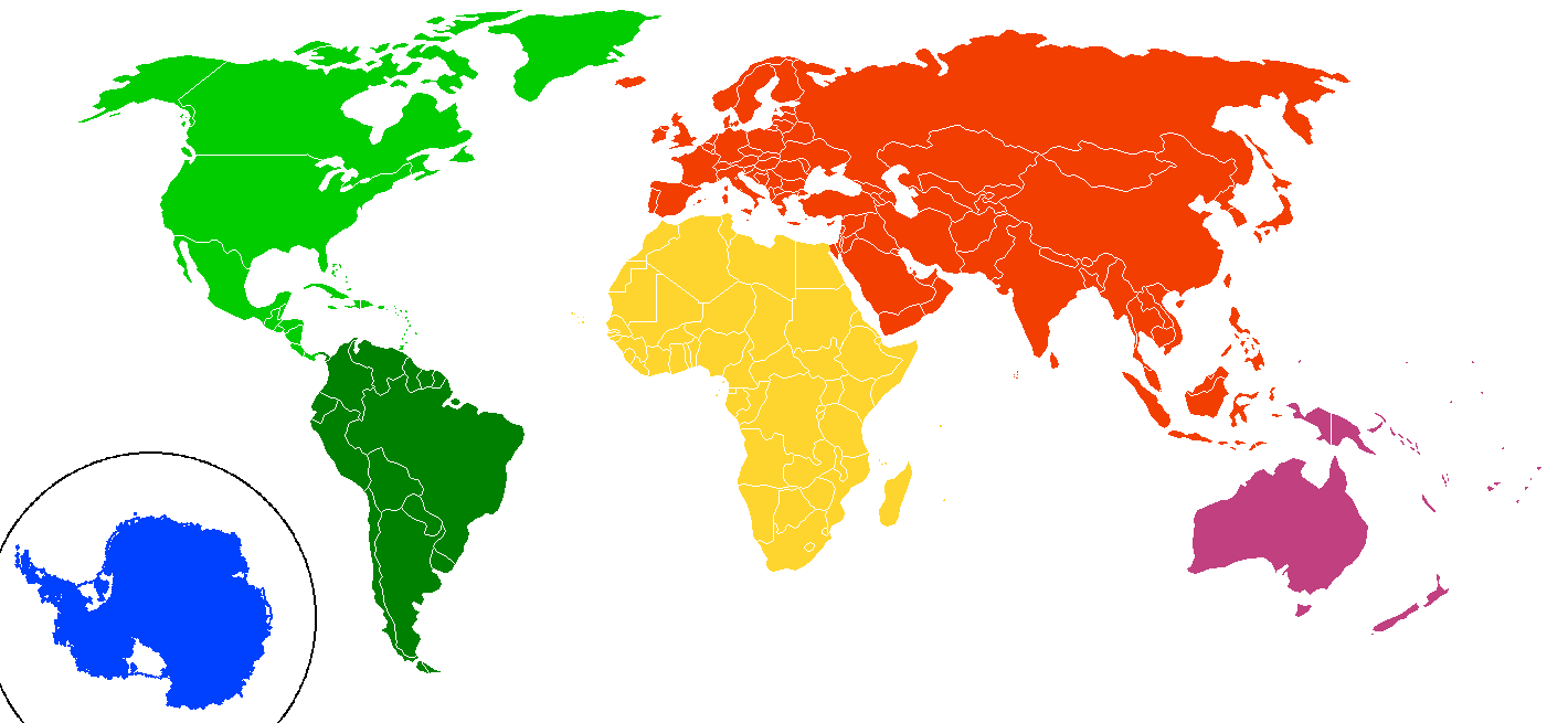 Continents by colour according to plate tectonics: Eurasia (instead of Asia and Europe)